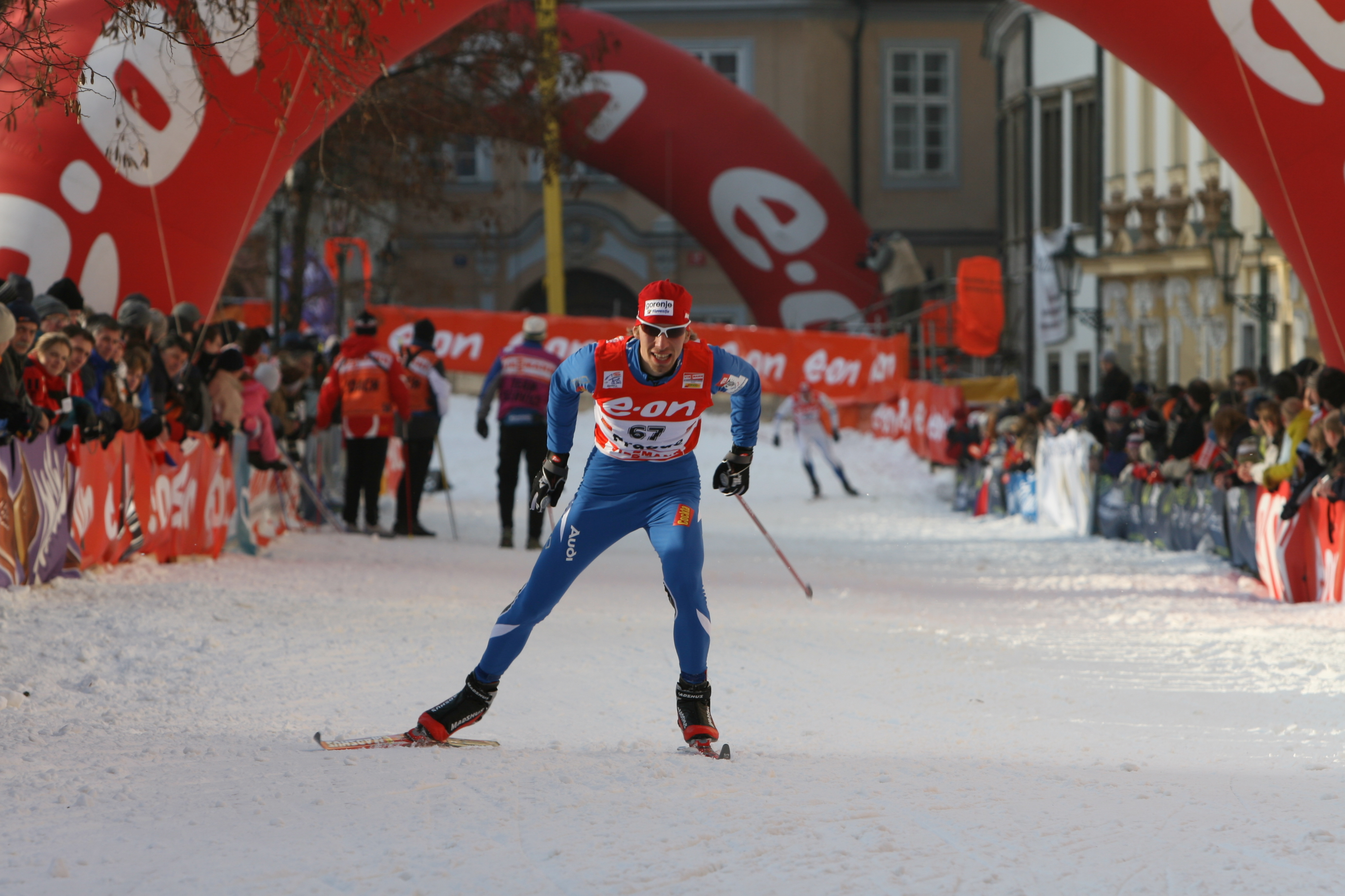 Slovenian cross-country skier Nejc Brodar competing at Tour de Ski in Prague